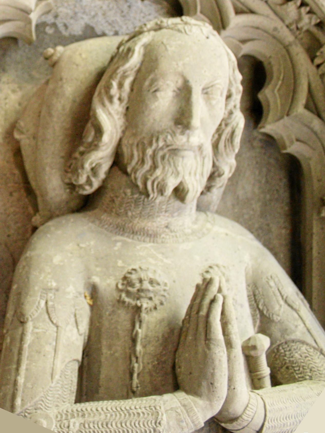 "Bergischer Dom" in Odenthal-Altenberg, Germany. Grave of Adolf VI. Count of Berg.